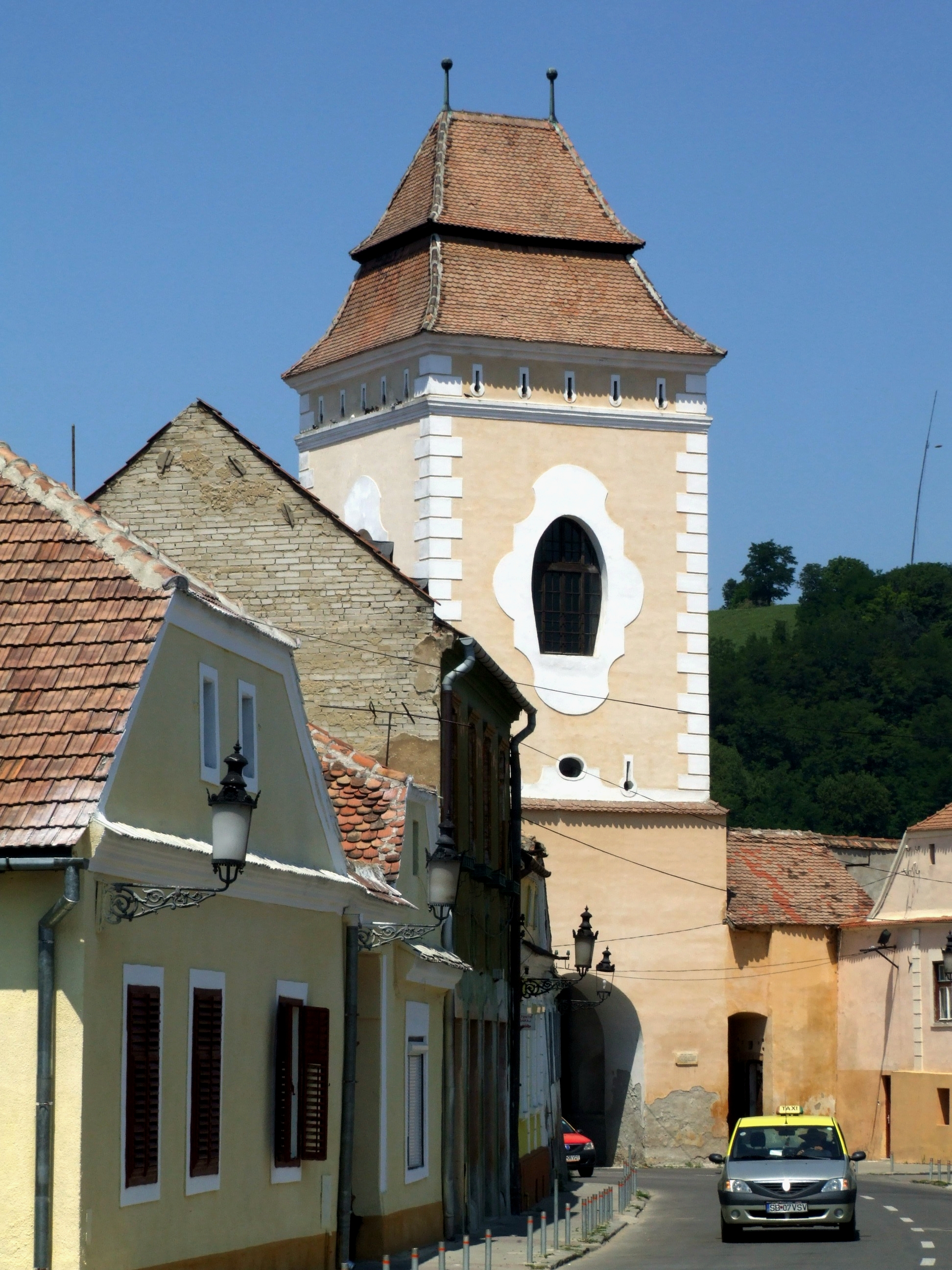 Mediaş (Mediasch, Medgyes) - wall tower (Turnul Pietralilor)